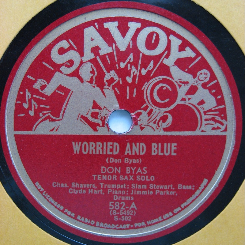 savoy records shellack 78